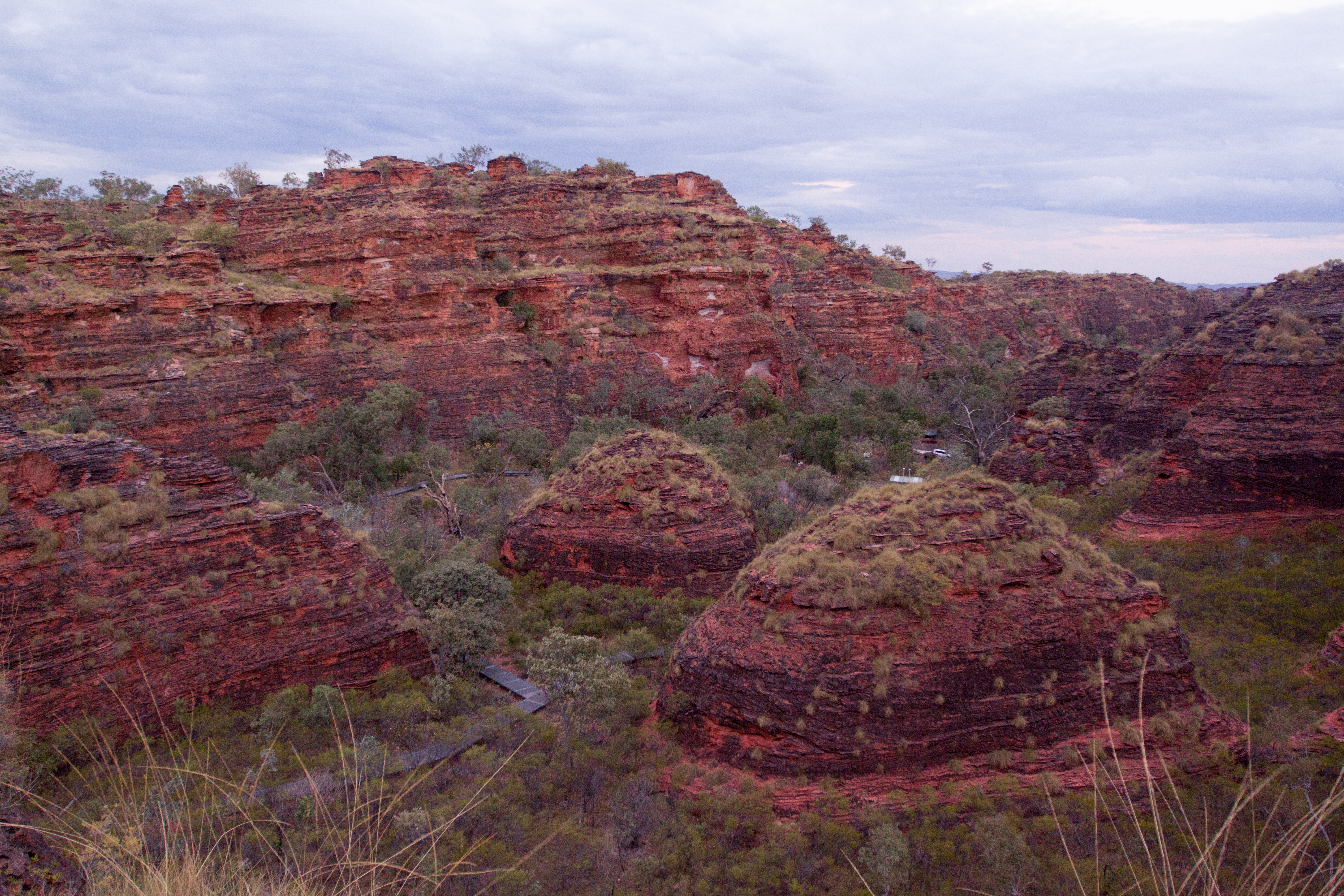 The unusual formations at the centre of Hidden Valley (Mirima) National Park.